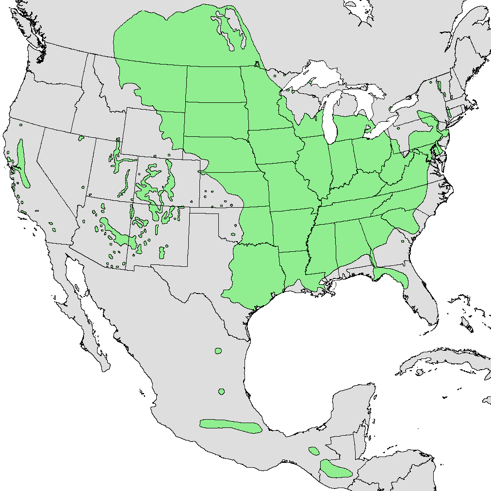 Range map of Acer negundo (boxelder).